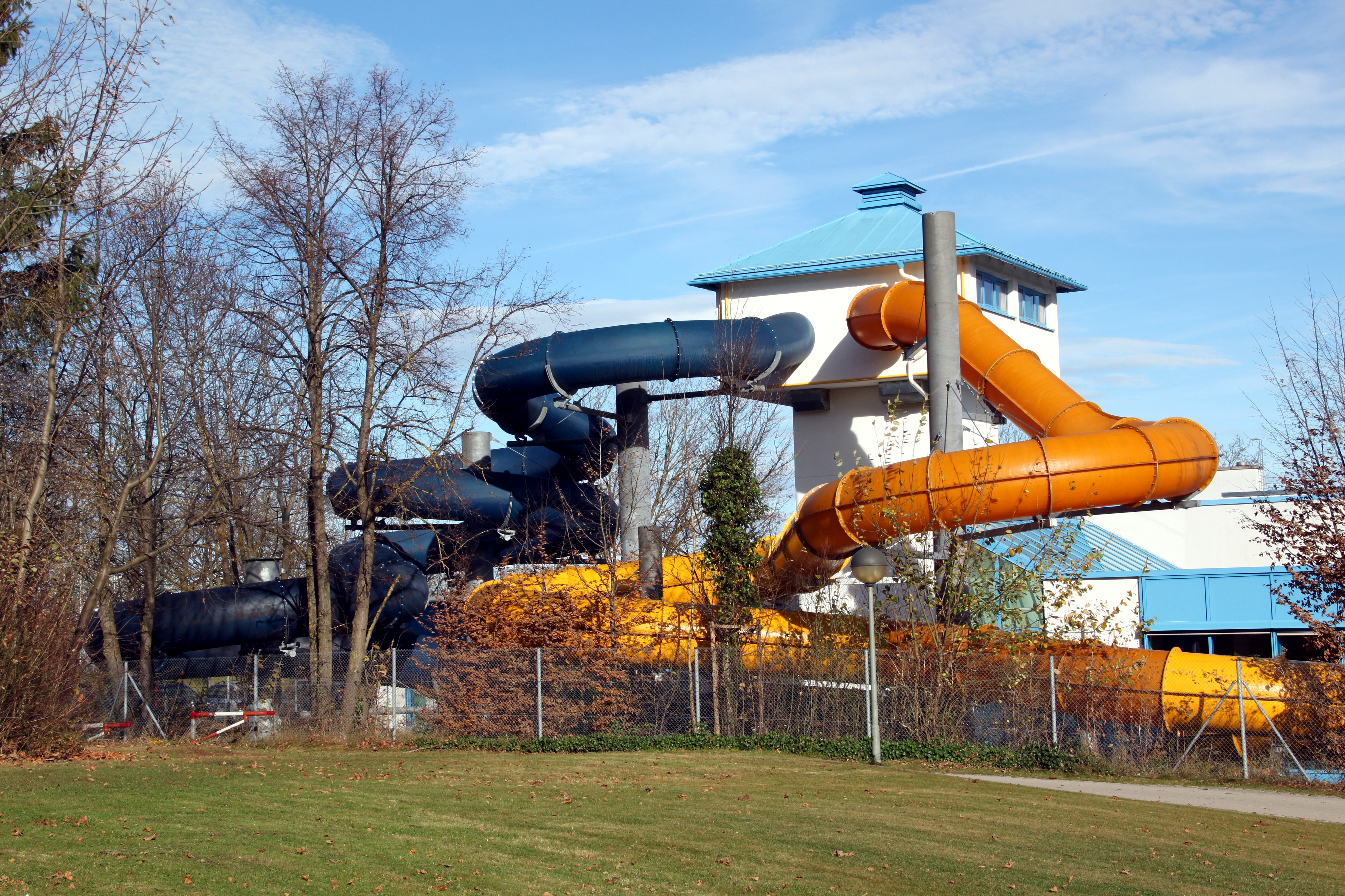 Ottobrunn: Tower and slides of the Phönix-Bad (public swimming bath)